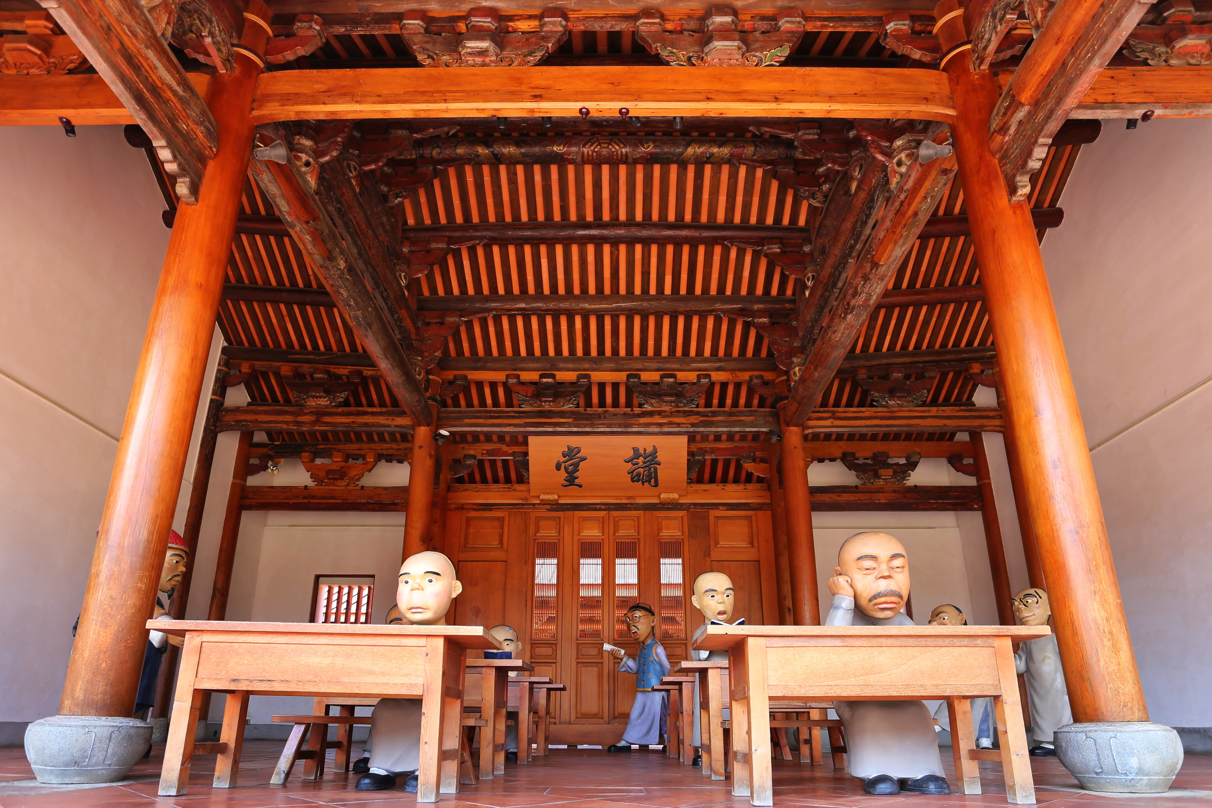 Lecture Hall of the Fongyi Tutorial Academy, Fongshan District, Kaohsiung City, Taiwan.